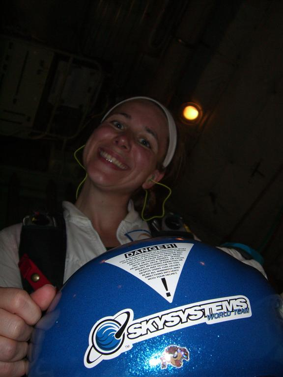 Tamsin „Taz“ Causer on the ride to altitude during World Team 2006